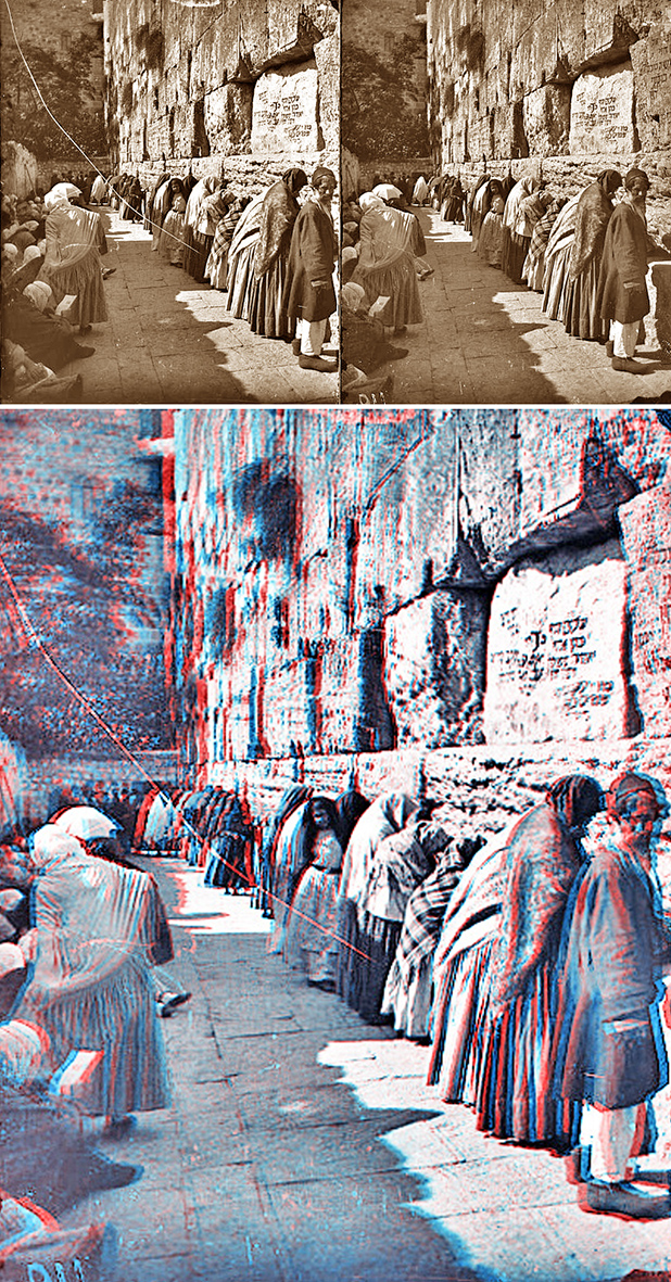 A simulation of stereoscopic image by coloring the two pictures, one in blue and one in red. You can see its depth by using a simple Anaglyph 3D glasses of blue and red